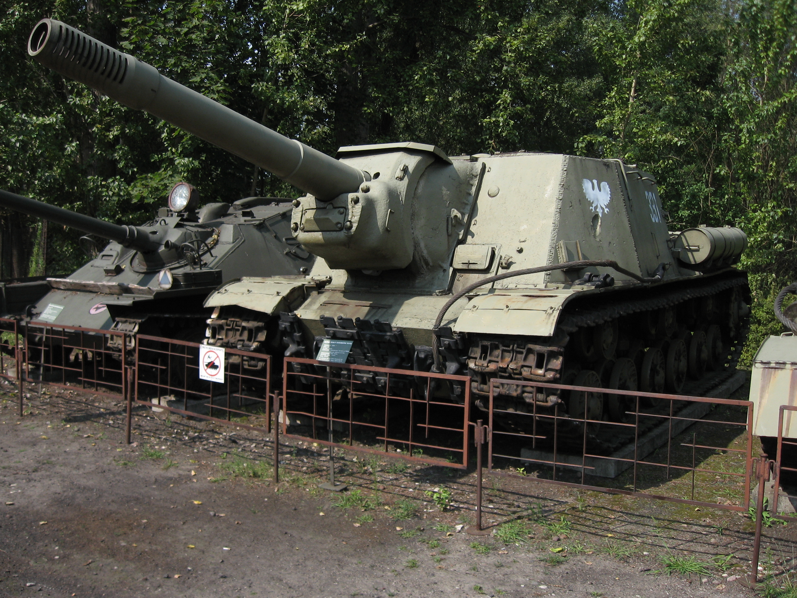 ISU-152 tank destroyer at the Muzeum Polskiej Techniki Wojskowej in Warsaw.